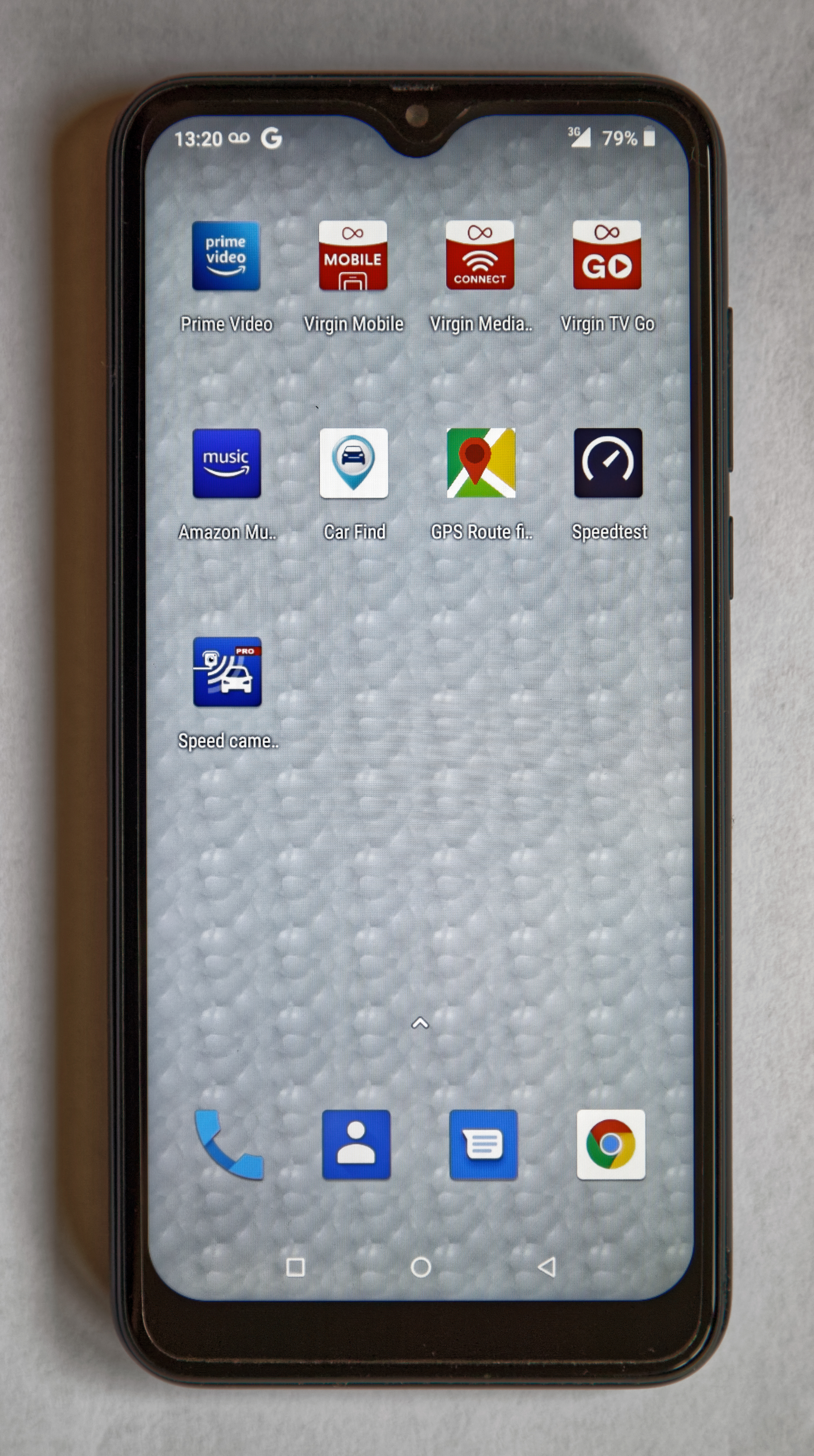 Blackview A60 Andoid Go mobile phone smartphone cell phone showing the front screen after PIN or face recognition login, with personalized wallpaper.Mobile device view: Wikimedia (June 2020) makes it difficult to immediately view photo groups related to this image. To see its most relevant allied photos, click on this uploader's Photos. You can add a click-through 'categories' button to the very bottom of photo-pages you view by going to settings... three-bar icon top left.Desktop view: Wikimedia (June 2020) makes it difficult to immediately view the helpful category links where you can find images related to this one in a variety of ways; for these go to the very bottom of the page.This image is one of a series of date and/or subject allied consecutive photographs kept in progression or location by file name number and/or time marking.Camera: Canon EOS 6D Mark II with Canon EF 24-105mm F4L IS USM lens.Software: File lens-corrected, optimized, perhaps cropped, with DxO OpticsPro Elite, and likely further optimized with Adobe Photoshop CS2.